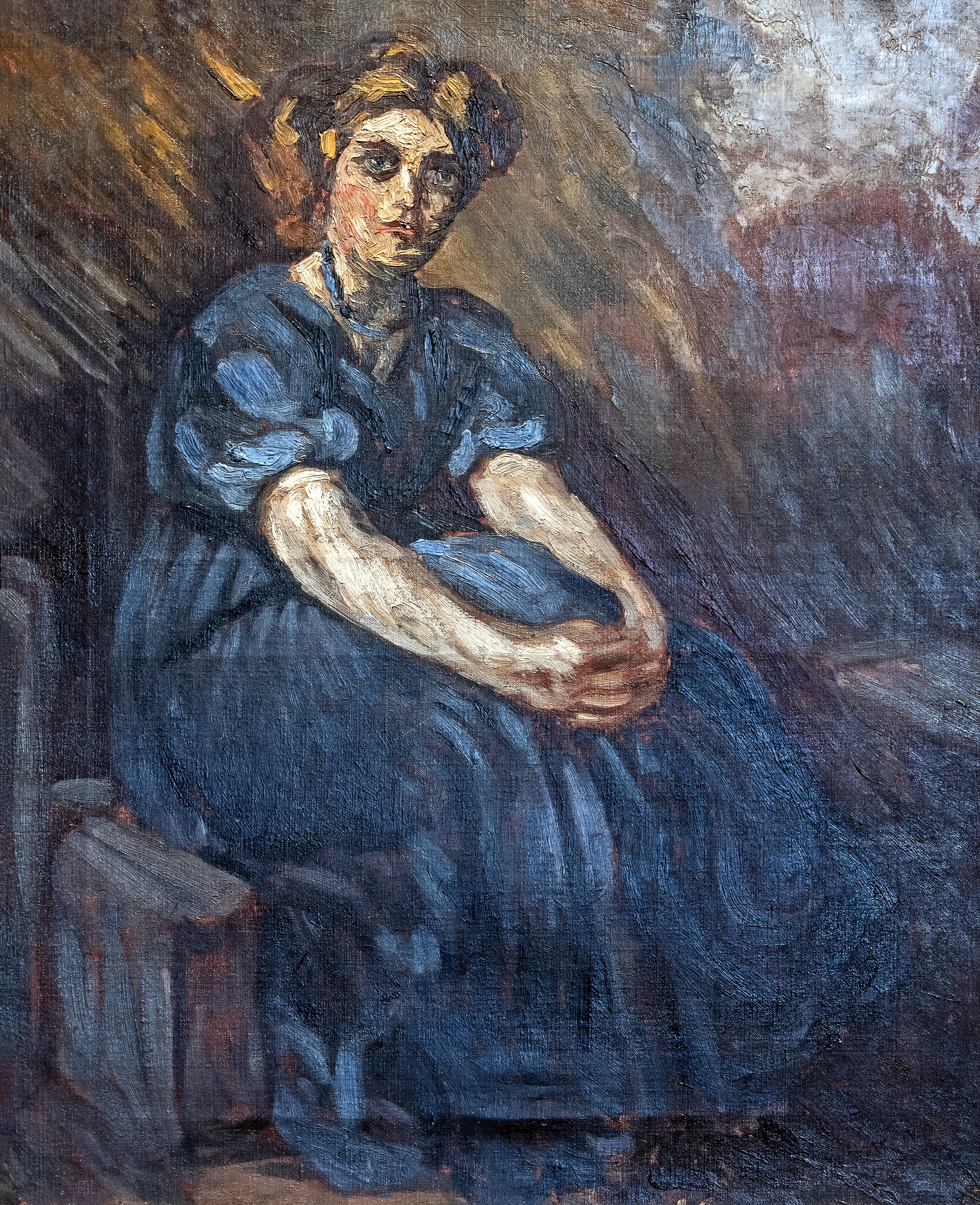 Stéphanie Van Parys is the first wife of Antoine Bourdelle